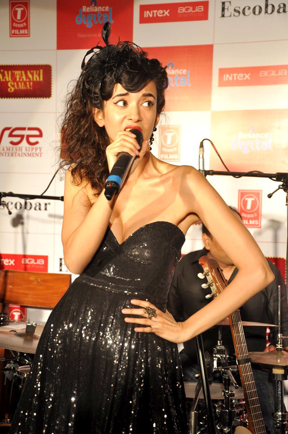 Saba Azad Success bash of 'Nautanki Saala!'s music